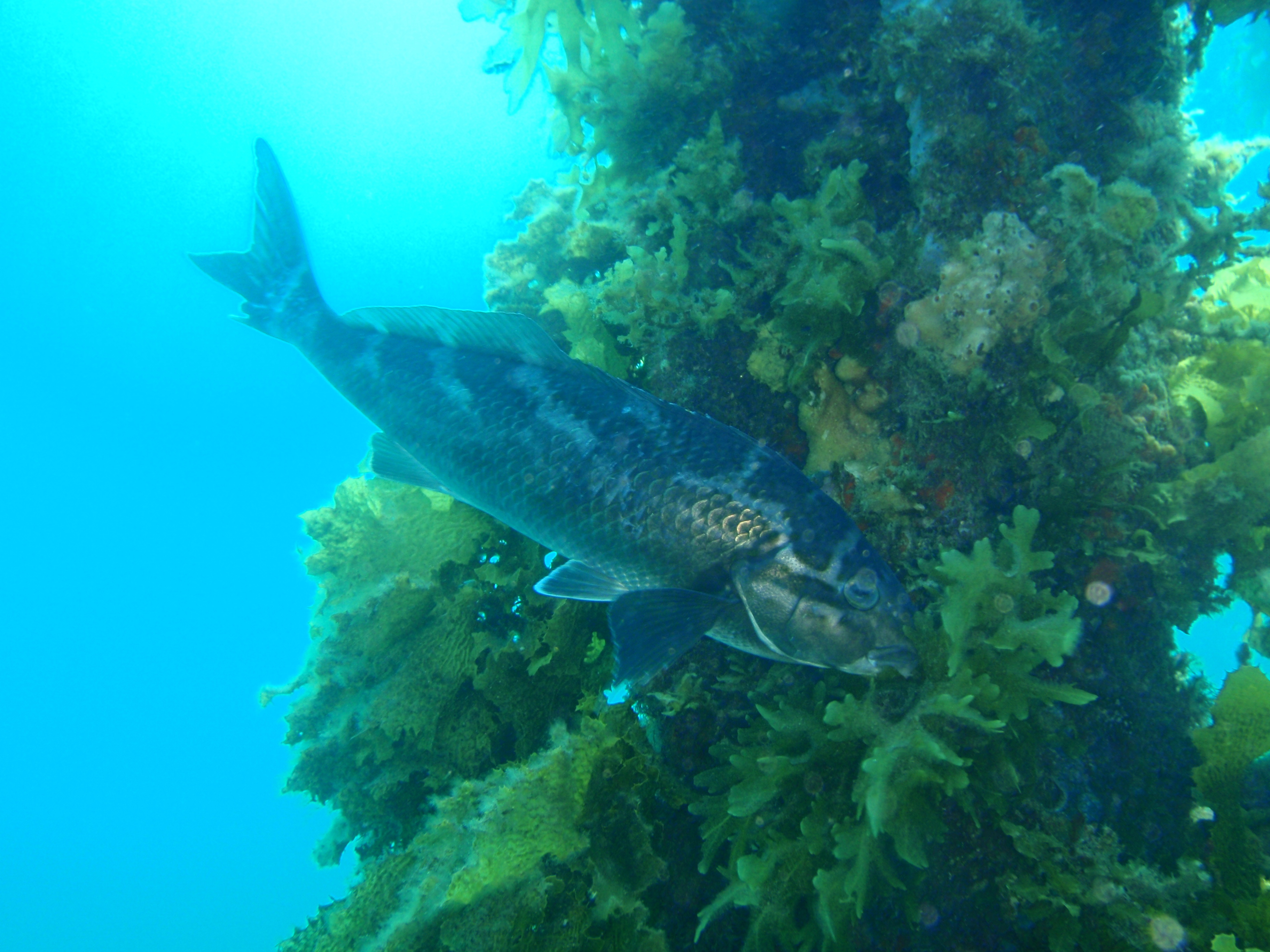 Dusky morwong Dactylophora nigricans at Rapid Bay Jetty, Gulf St Vincent, South Australia